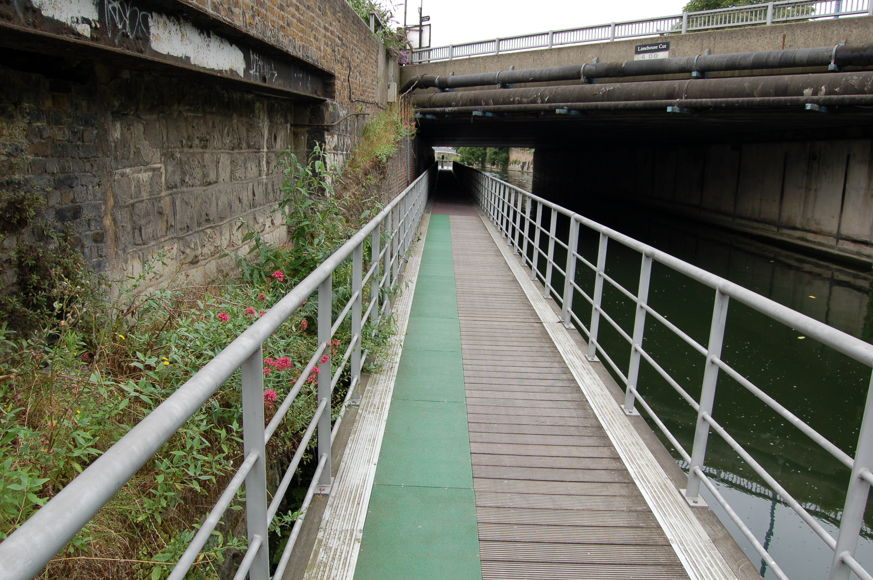 Floating towpath, Limehouse Cut In 2003, an award winning 240 metres (262 yd) floating towpath was installed to link the existing Limehouse Cut towpath to Bow Locks. Use freely, please attribute. K B Thompson